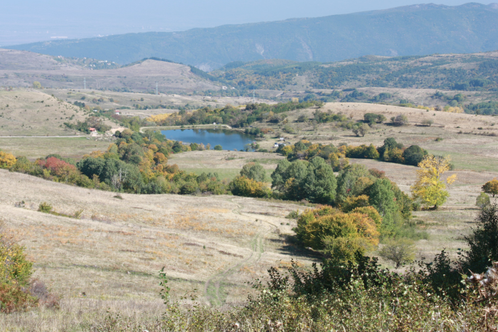 Panoramic view from the tourist trail between Bistritsa and Jeleznitsa in Vitosha